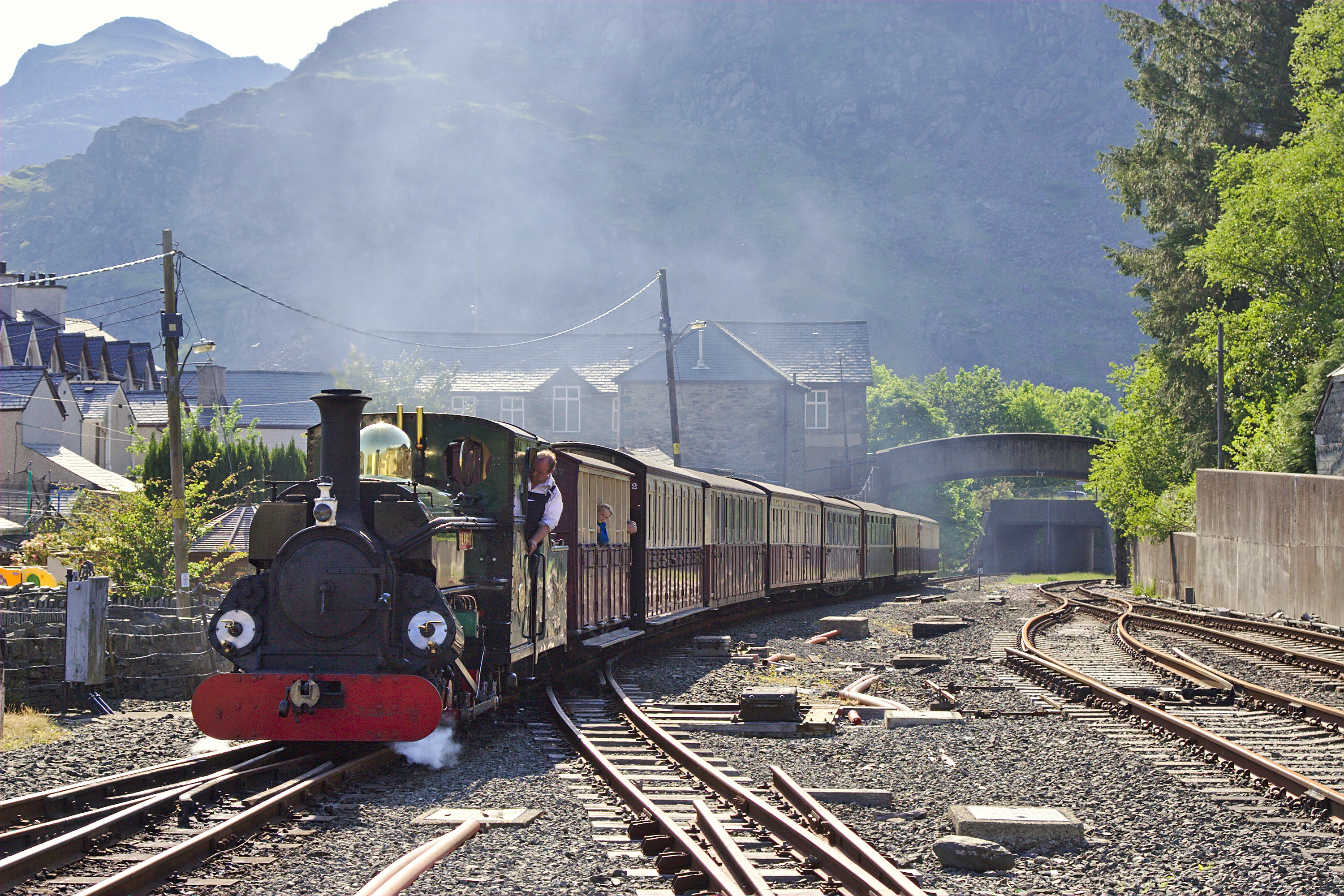 A train with Blanche entering Blaenau Ffestiniog station.